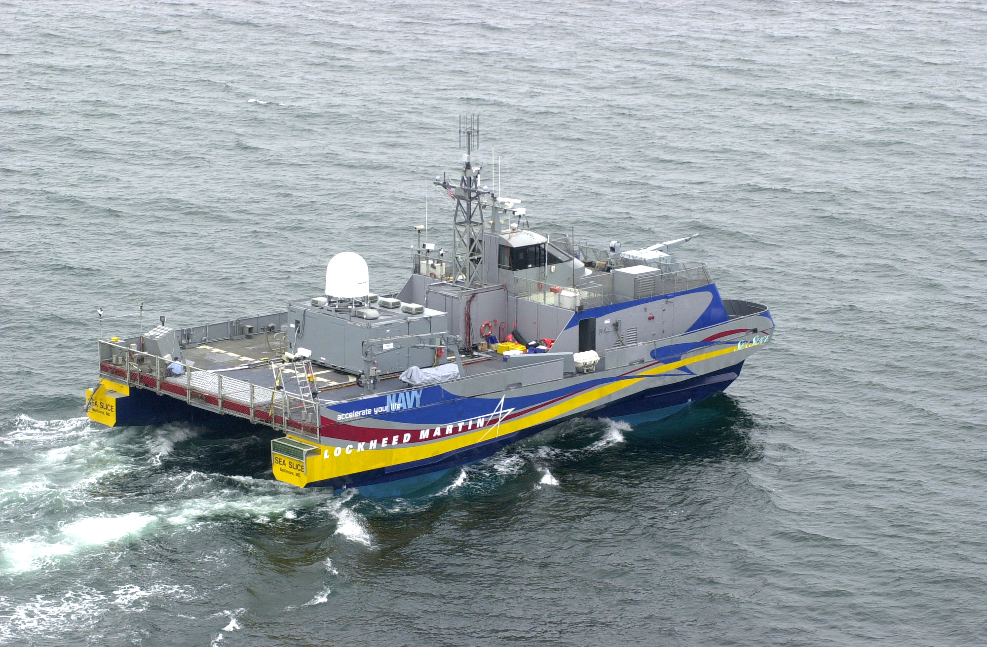 Orginal US-Navy relase to the picture: Image: 020802-N-2706D-002.jpg Description: An aerial view of the Sea Slice operating off the coast of Port Hueneme, Calif. 020802-N-2706D-002 At sea with the experimental Small Waterplane Area Twin Hull (SWATH) ship “Sea Slice” Aug. 2, 2002 -- An aerial view of the Sea Slice, an experimental ship built by Lockheed-Martin, operating off the coast of Port Hueneme, Calif., during Fleet Battle Experiment Juliet (FBE-J). Fleet Battle Experiment Juliet is a joint warfighting experiment combining both live field forces and computer simulation at various locations throughout the United States during “Millennium Challenge 2002” (MC-02). Millennium Challenge is the nation's premier joint integrating event, bringing together both live field exercises and computer simulations throughout the Department of Defense. U.S. Navy photo by Journalist 2nd Class Terry Dillon. (RELEASED)